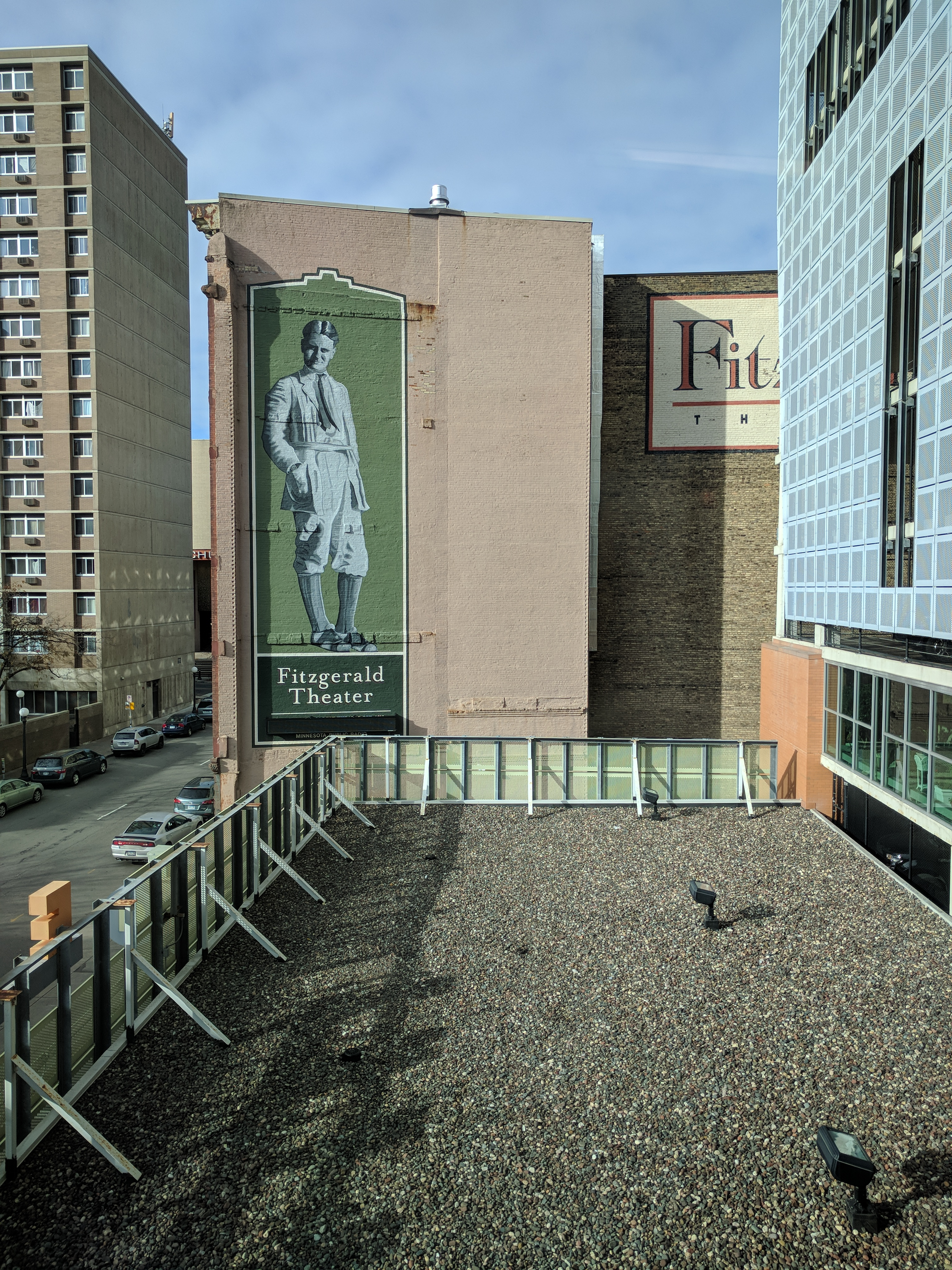 Saint Paul, Minnesota, from parking structure for Minnesota Children's Museum